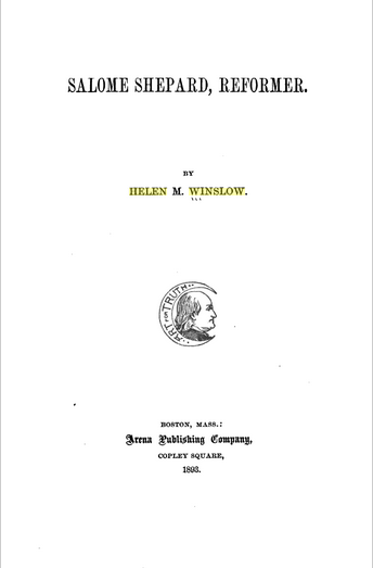 Salome Shepard: Reformer, By Helen Maria Winslow